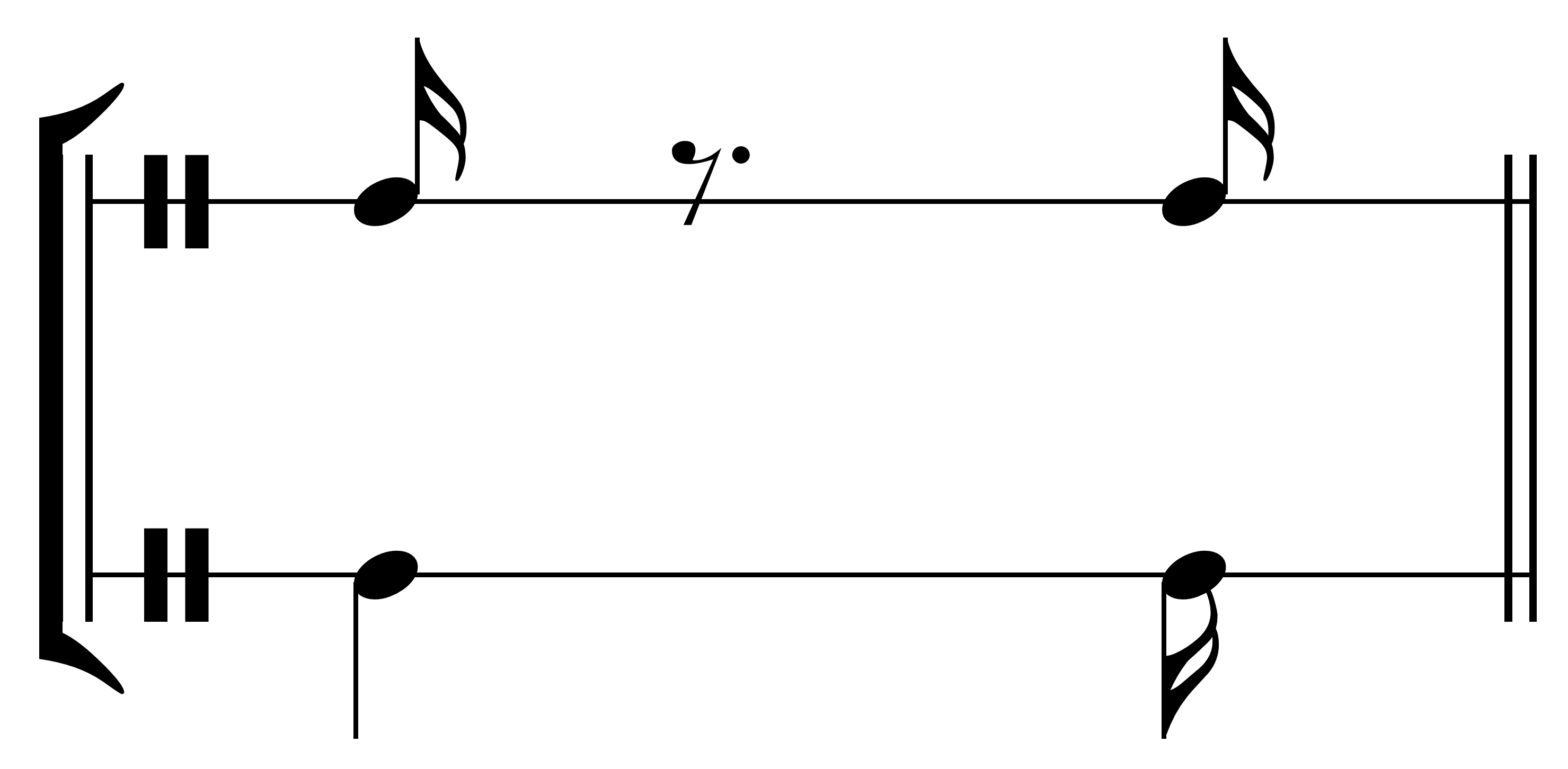 Interonset intervals are not determined or affected by note duration but by note beginnings. Thus, the interonset interval between a quarter note and a sixteenth note is the same as that for a sixteenth note & dotted eighth rest, and a sixteenth note.